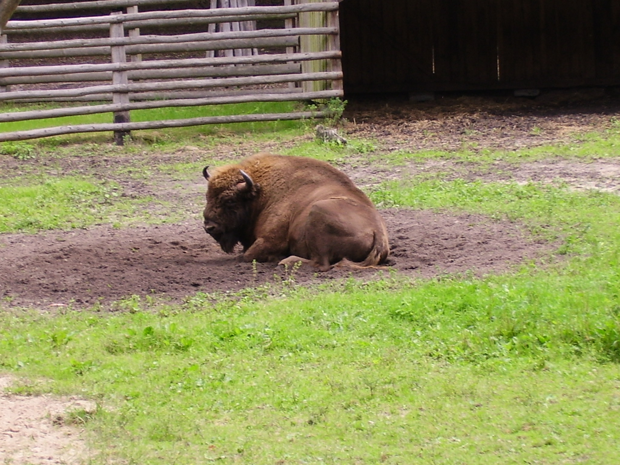 Wisent (Bison bonasus) in Woliński National Park next to Międzyzdroje (Poland)